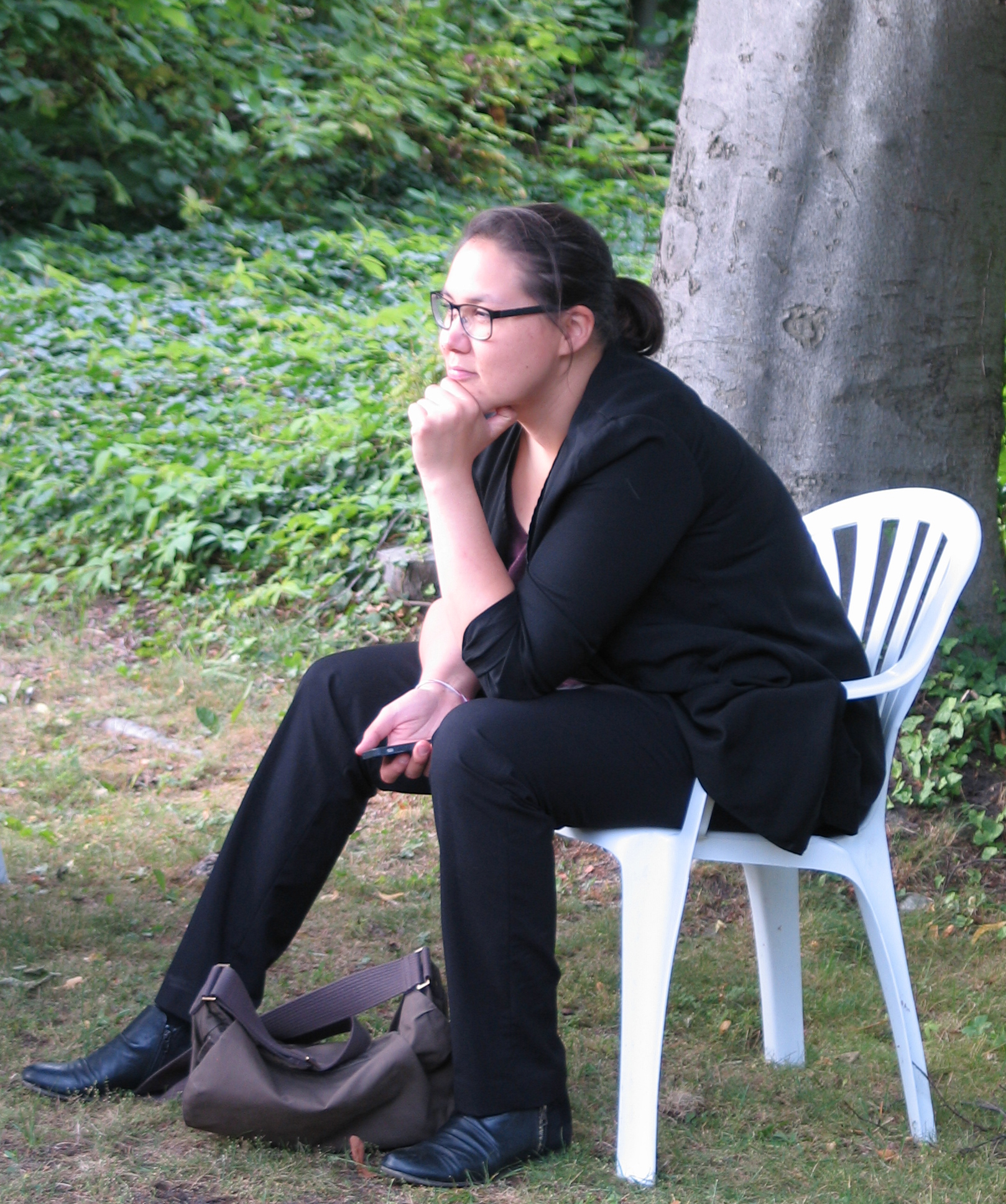 Greenlandic writer Niviaq Korneliussen (b. 1990) in Berlin